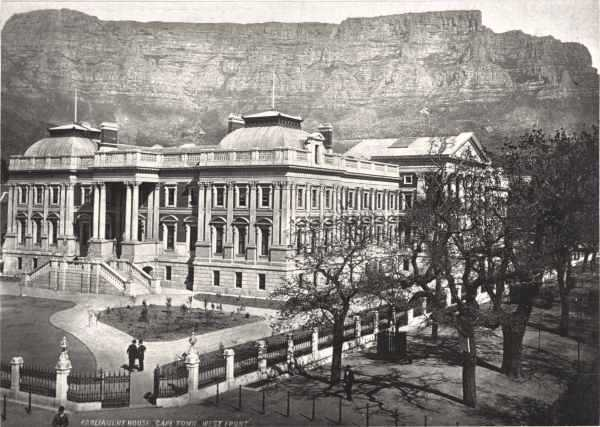 Nineteenth Century photograph of the Cape Parliament soon after construction. Cape Colony.